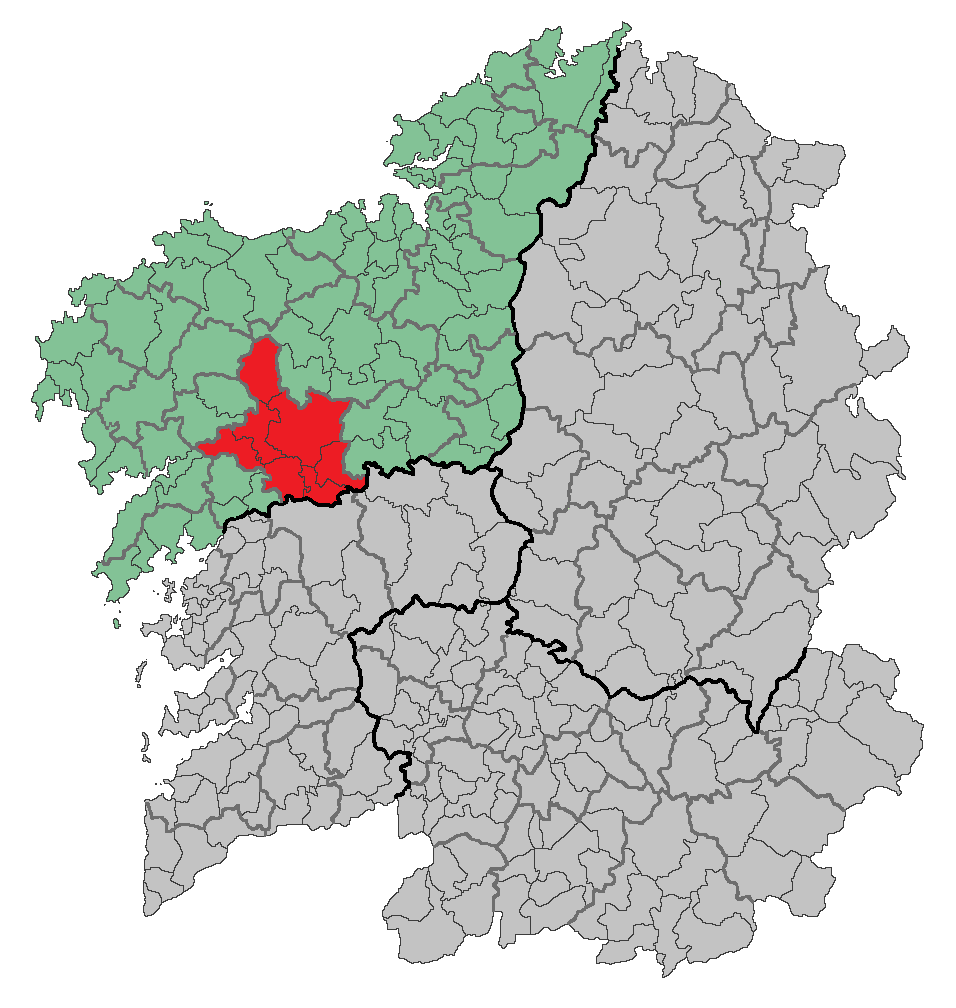 Region of Galicia (Spain)Based in: Image:Location of Santiago de Compostela.png Source: Designed by Leoplus. Original picture, designed by Caiser.